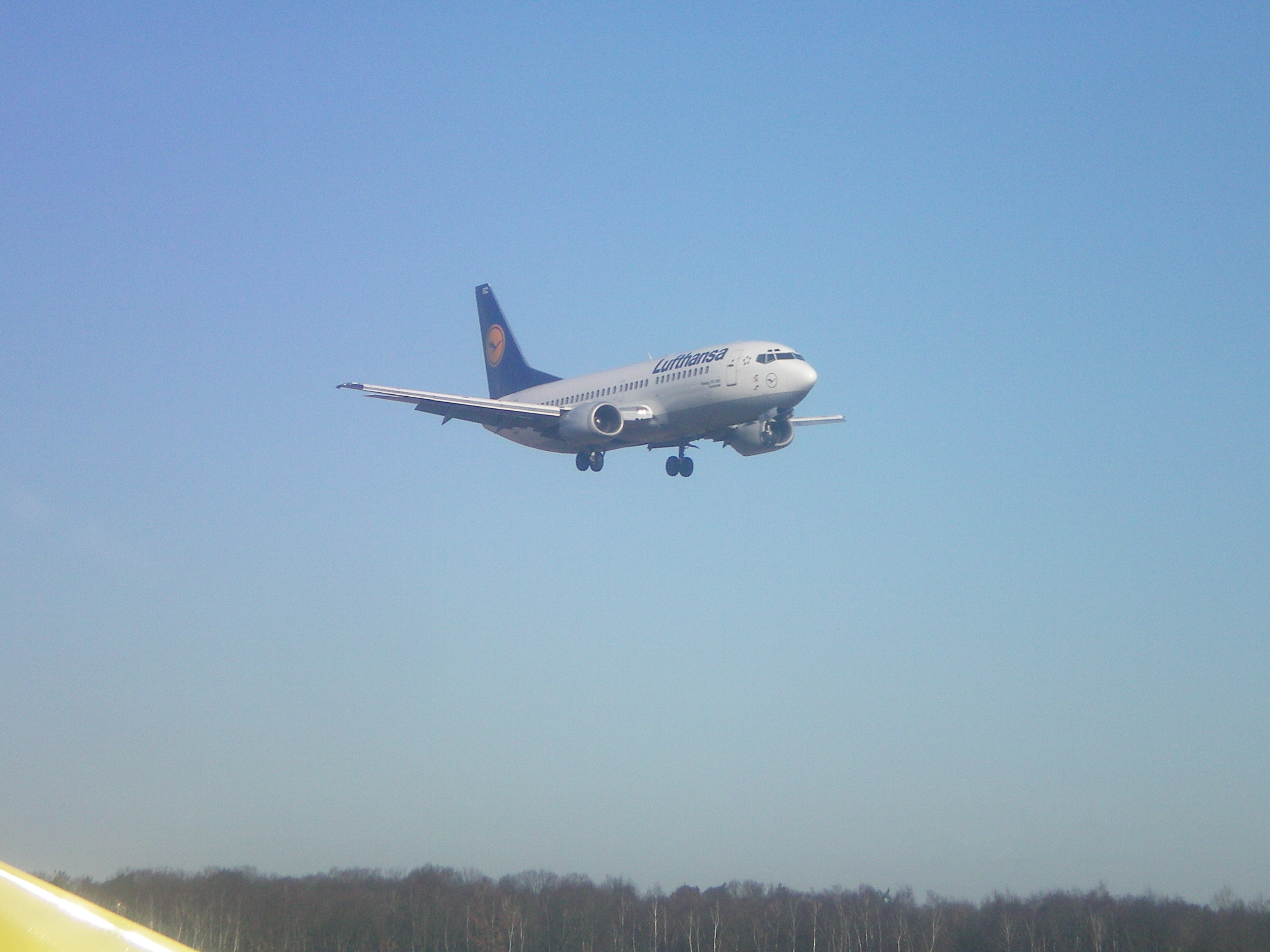 Lufthansa Boeing 737 landing at Cologne/Bonn Airport